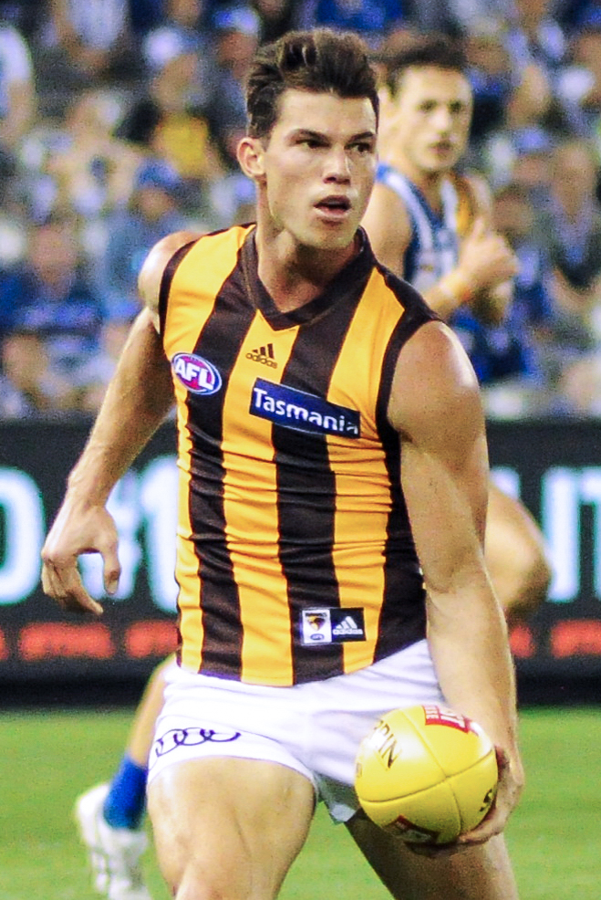 Jaeger O'Meara during the AFL round five match between North Melbourne and Hawthorn on Sunday, 22 April 2018 at Etihad Stadium in Melbourne, Victoria.